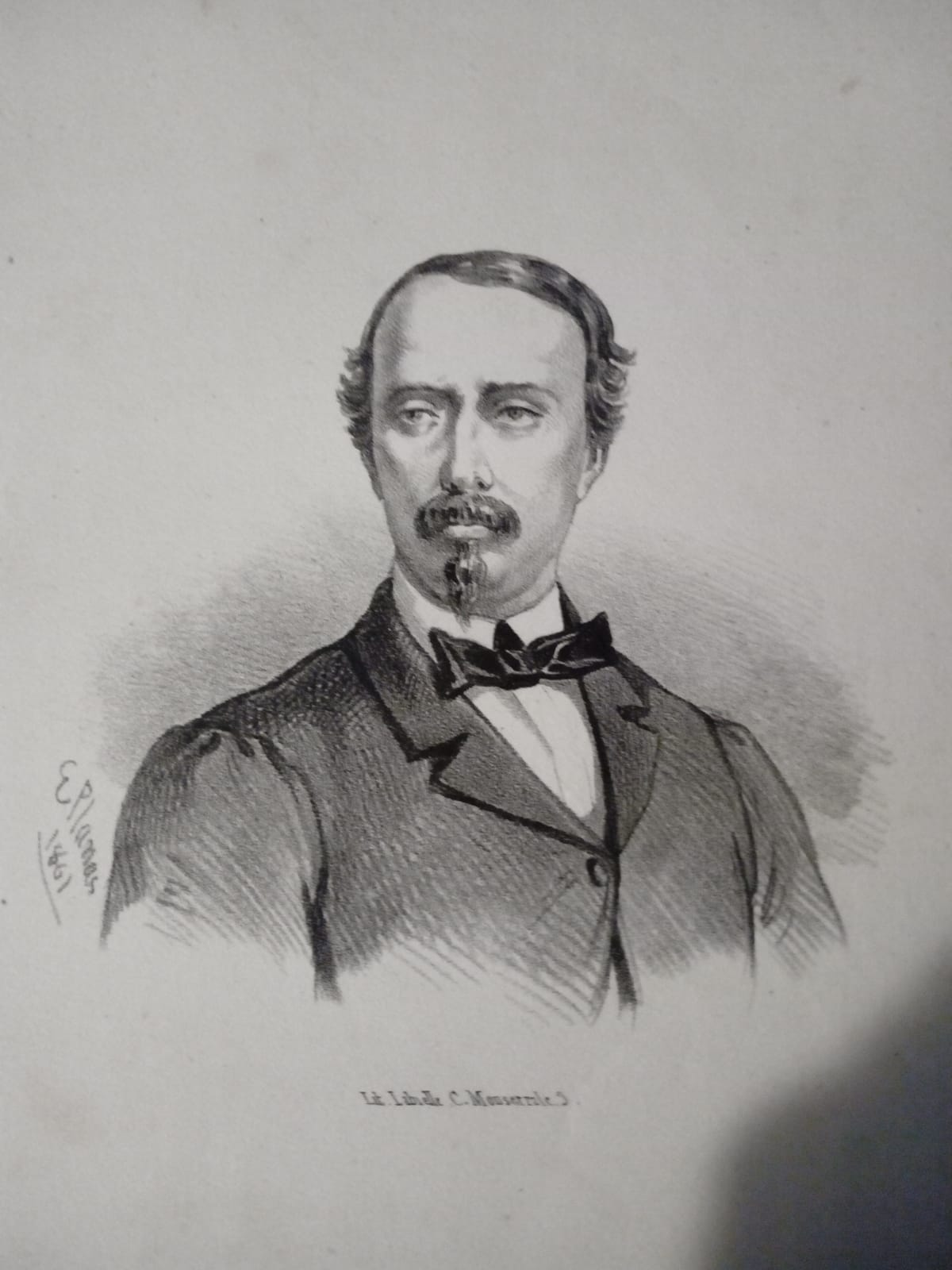 Conde de Montemolín